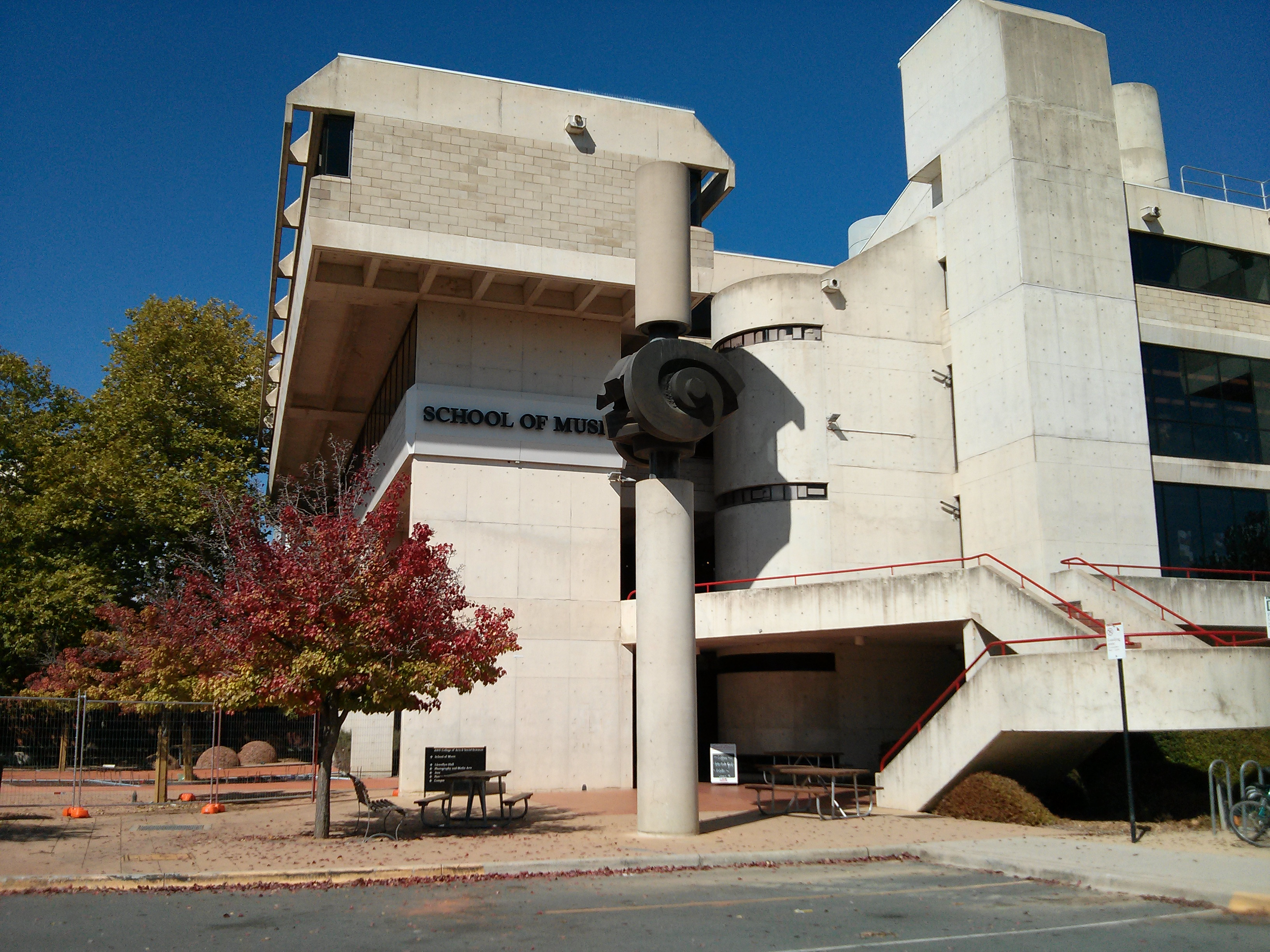 A sculpture near the entrance to the Australian National University's School of Music